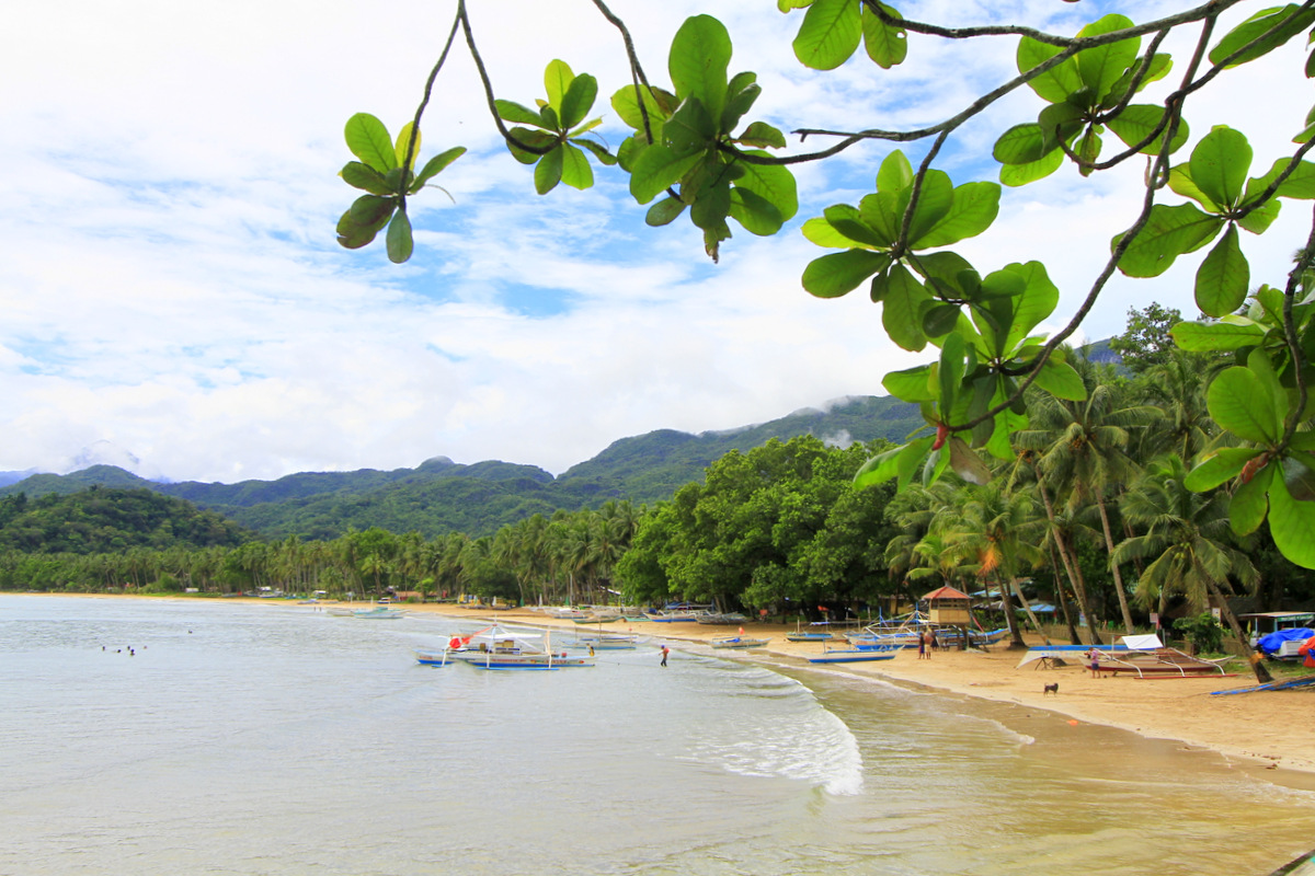 Sabang Beach in Puerto Princesa, Palawan